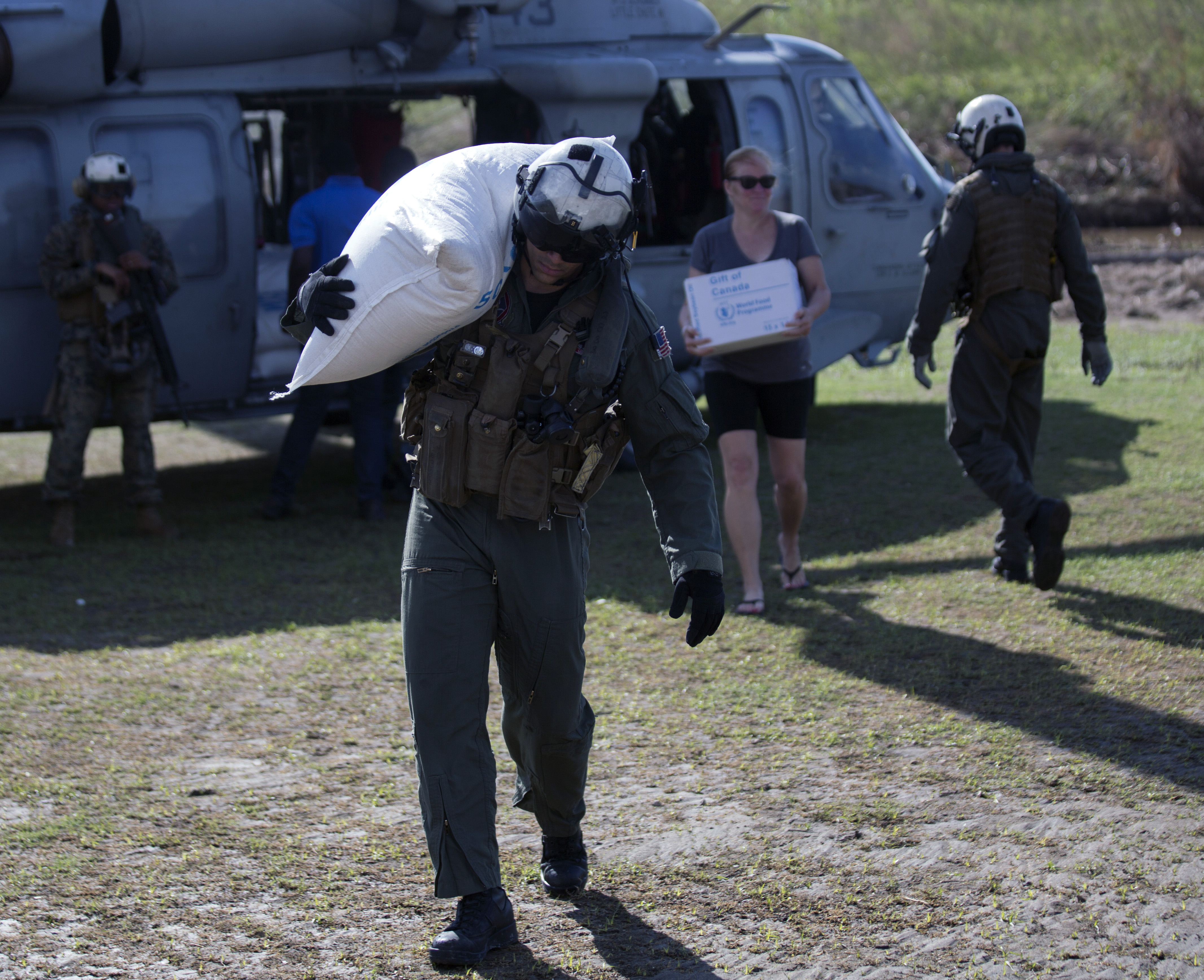 Sailors with Helicopter Sea Combat Squadron 28, civil aid workers and local Haitian villagers unload supplies from an MH-60 Seahawk in the aftermath of Hurricane Matthew at LaCohaune, Haiti, Oct. 17, 2016. USAID is coordinating aid with the U.S. military, other international partners, such as the WFP, and non-governmental organizations to provide relief to the people of Haiti. The 24th Marine Expeditionary Unit is committed to providing support where it is needed while continuing to prepare for their upcoming deployment. (U.S. Marine Corps photo by Sgt. Justin T. Updegraff)161017-M-TV331-084 Join the conversation: navylive.dodlive.mil